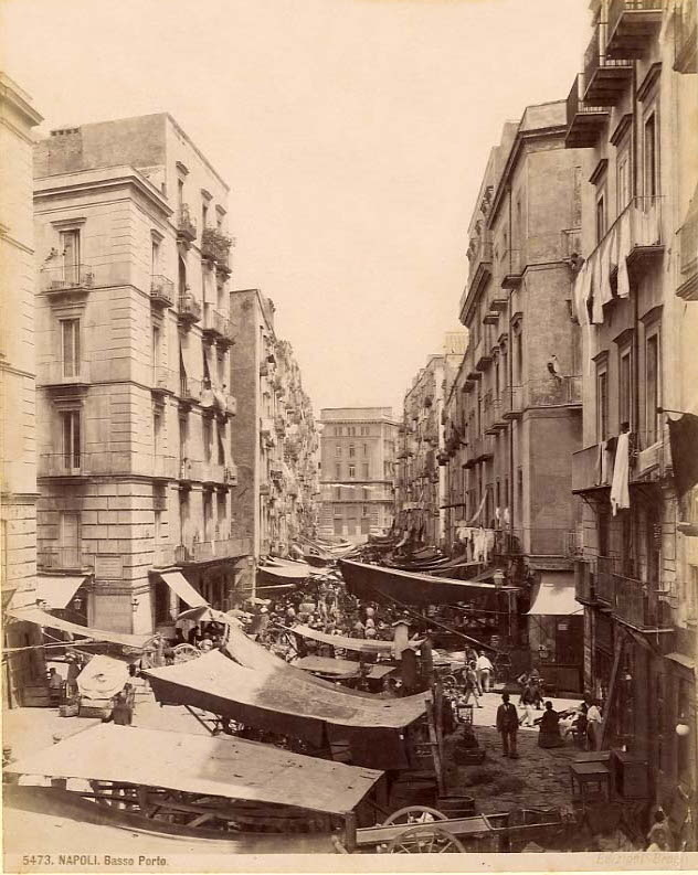 Giacomo Brogi (1822-1881) - "Naples - Low Harbour area". Catalogue # 5473.